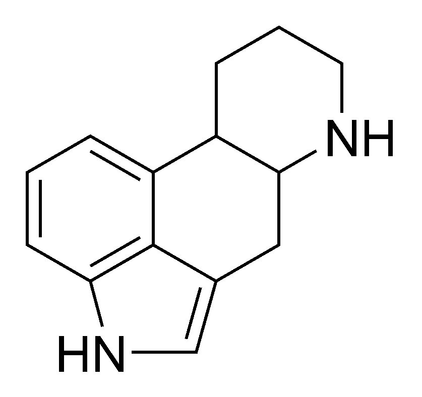 Chemical structure of ergoline